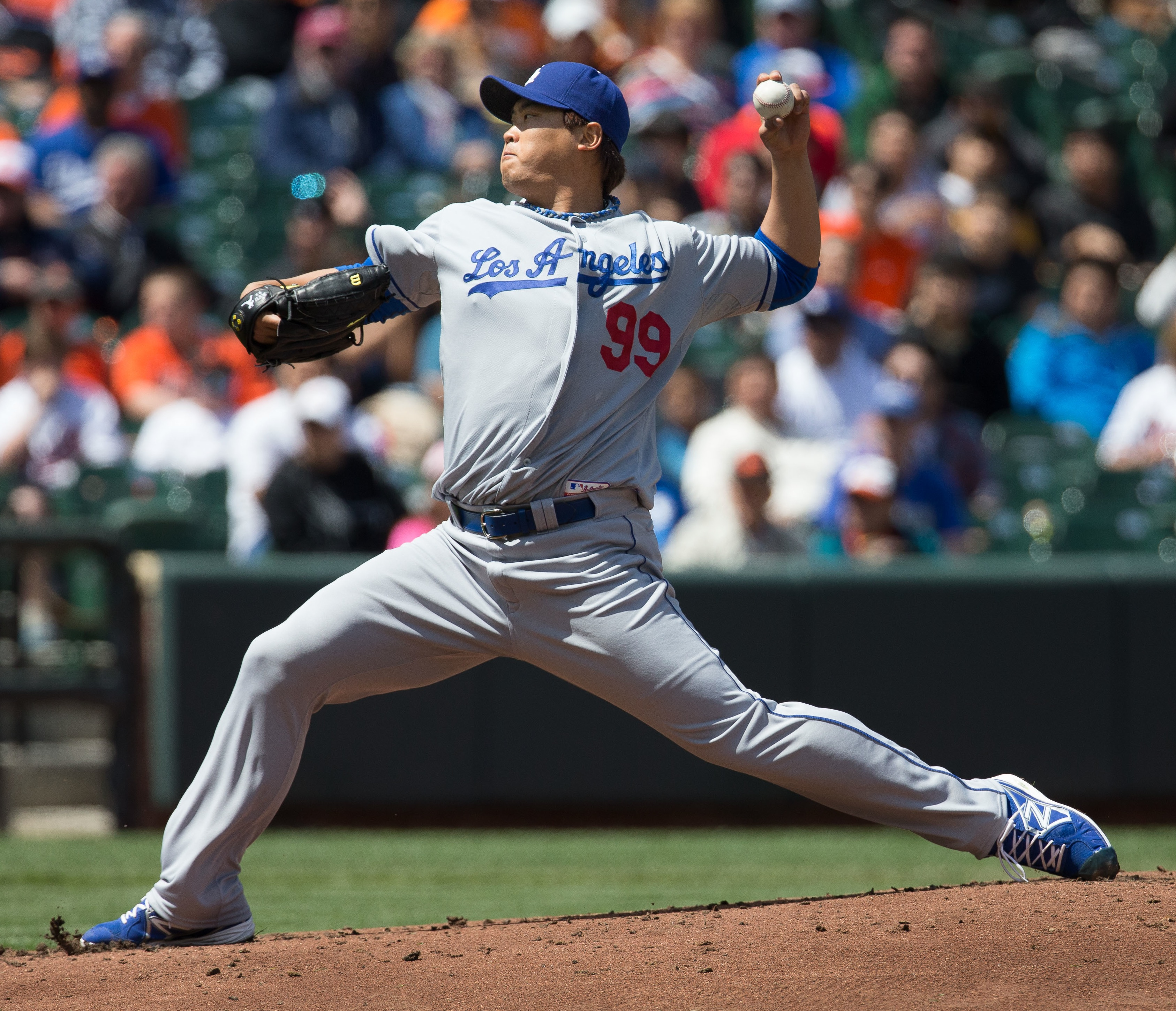 Los Angeles Dodgers pitcher Hyun-Jin Ryu – Los Angeles Dodgers at Baltimore Orioles April 20, 2013